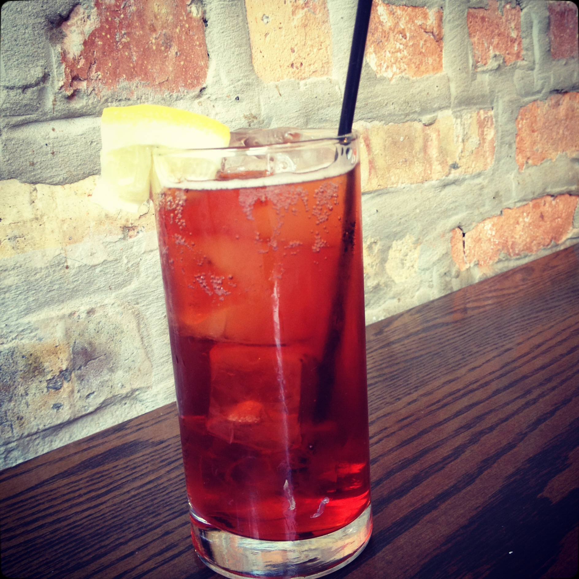 Nightwood Restaurant. July 8, 2012.